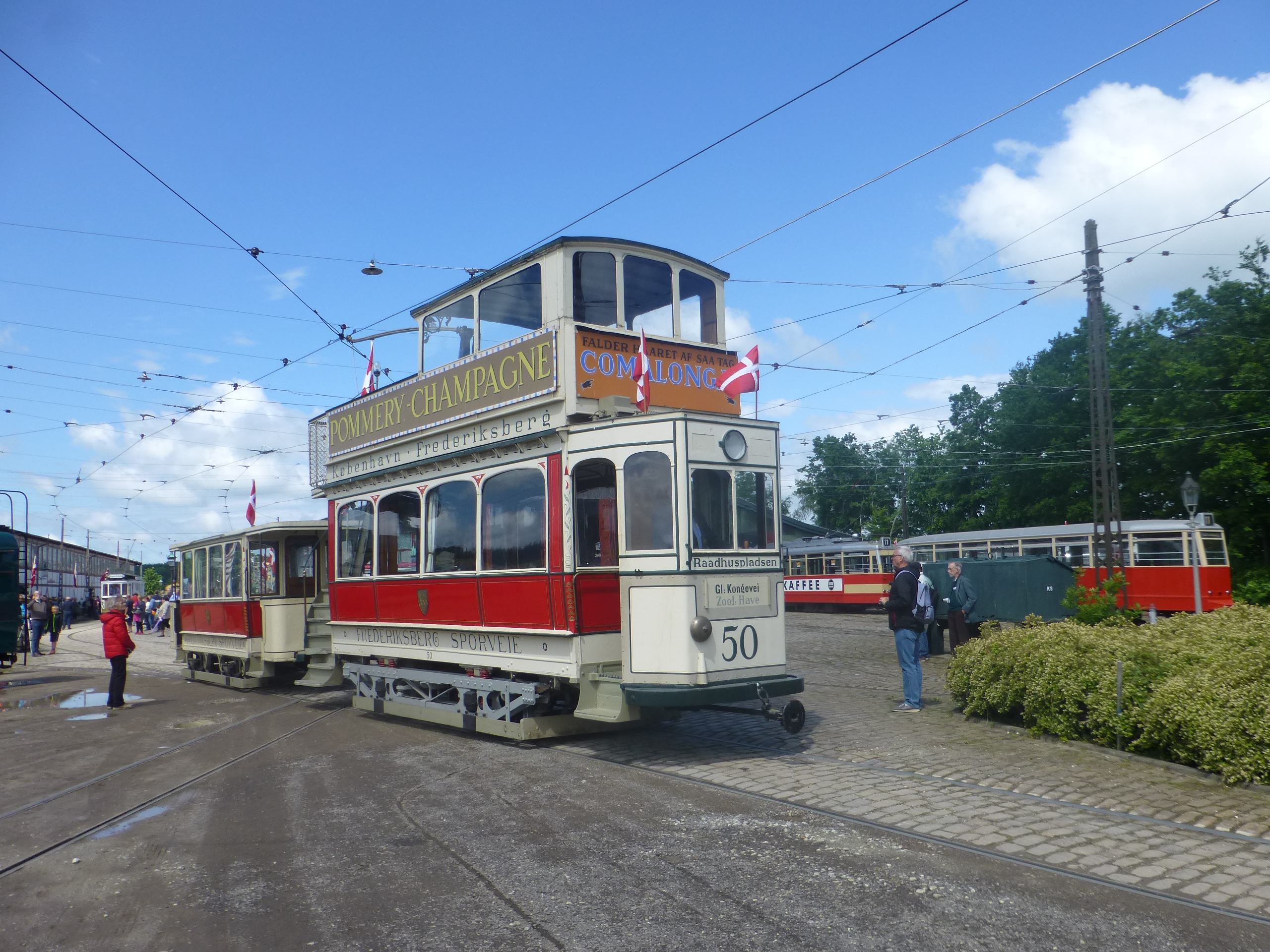 Tram parade at Sporvejsmuseet Skjoldenæsholm due to celebrating of 50 years of the Danish tramway society, Sporvejshistorisk Selskab. Tram from Copenhagen, FS 50 from 1915 and FS 78 from 1913.